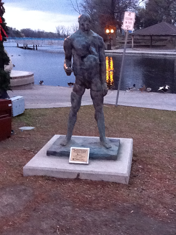 Photo of statue "Decision Pending" in Brighton, Michigan.